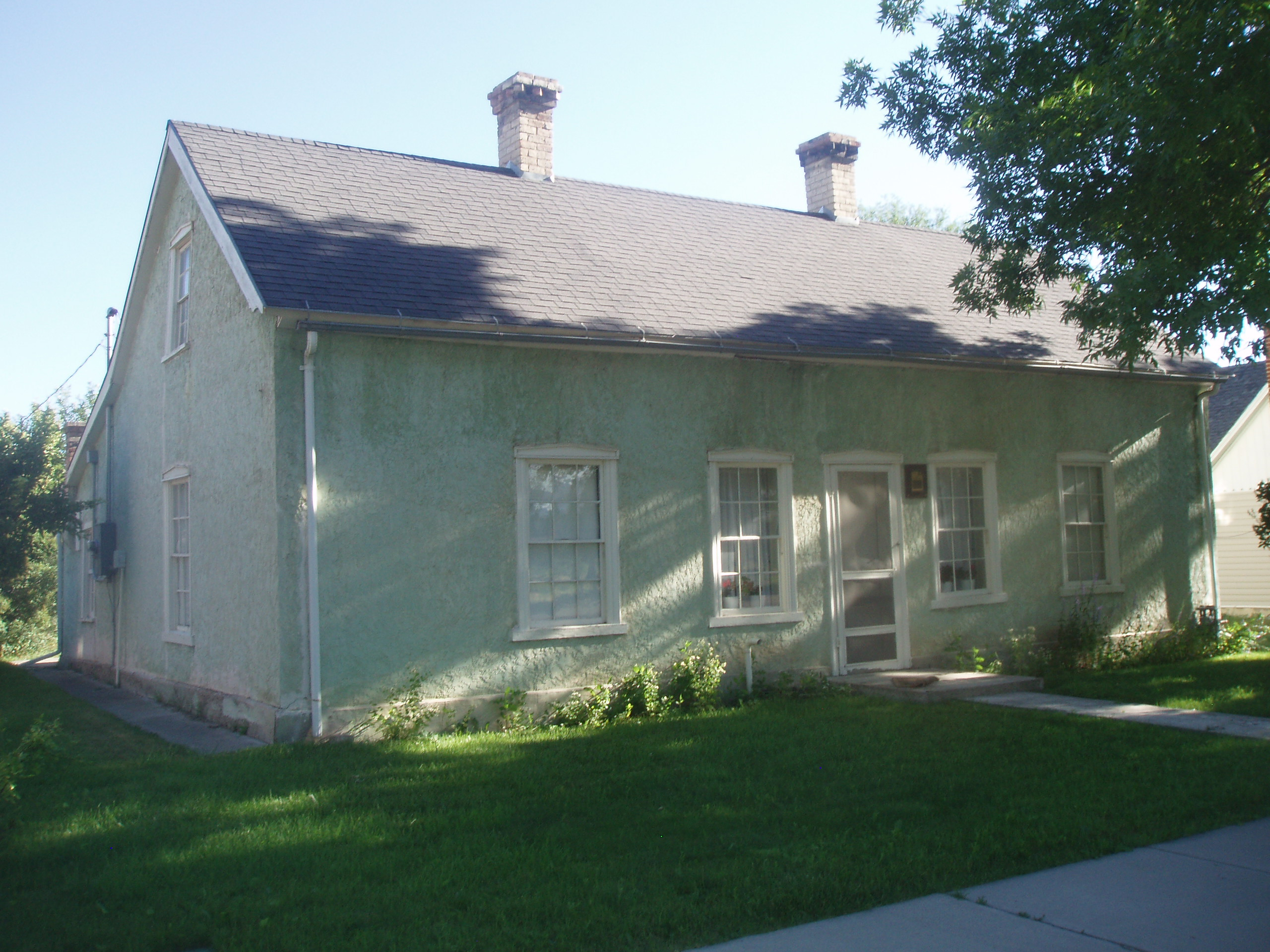 The Fredrick Christian Sorensen House, a historic home in Ephraim, Utah, United States.